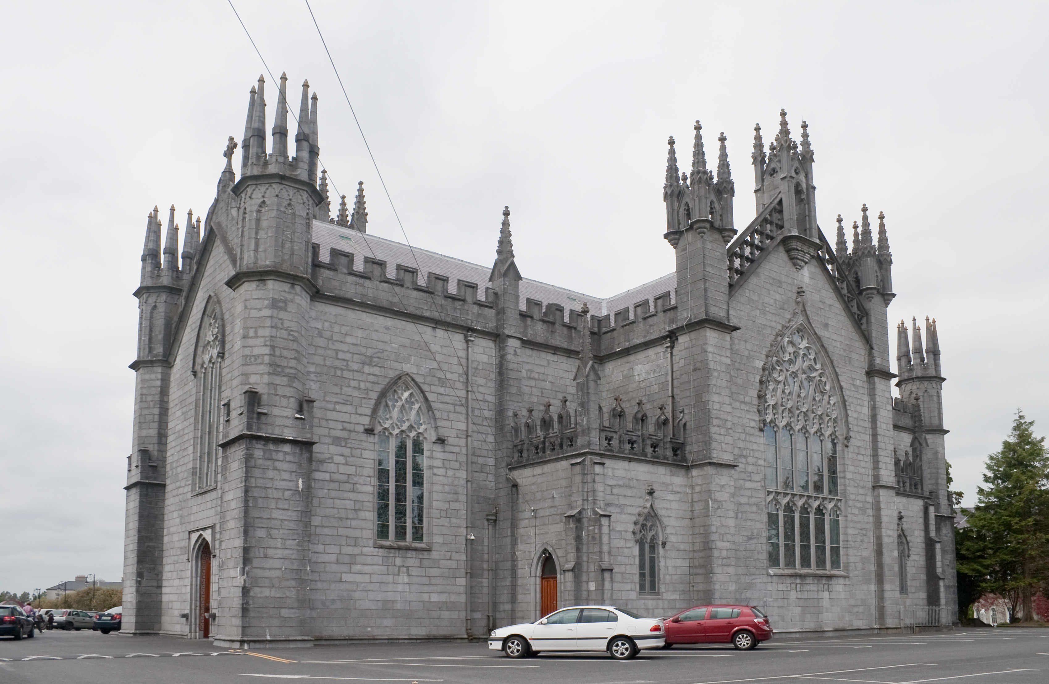 Tuam, County Galway, Ireland View of south transept and east window of the Cathedral of the Assumption, looking north-west.